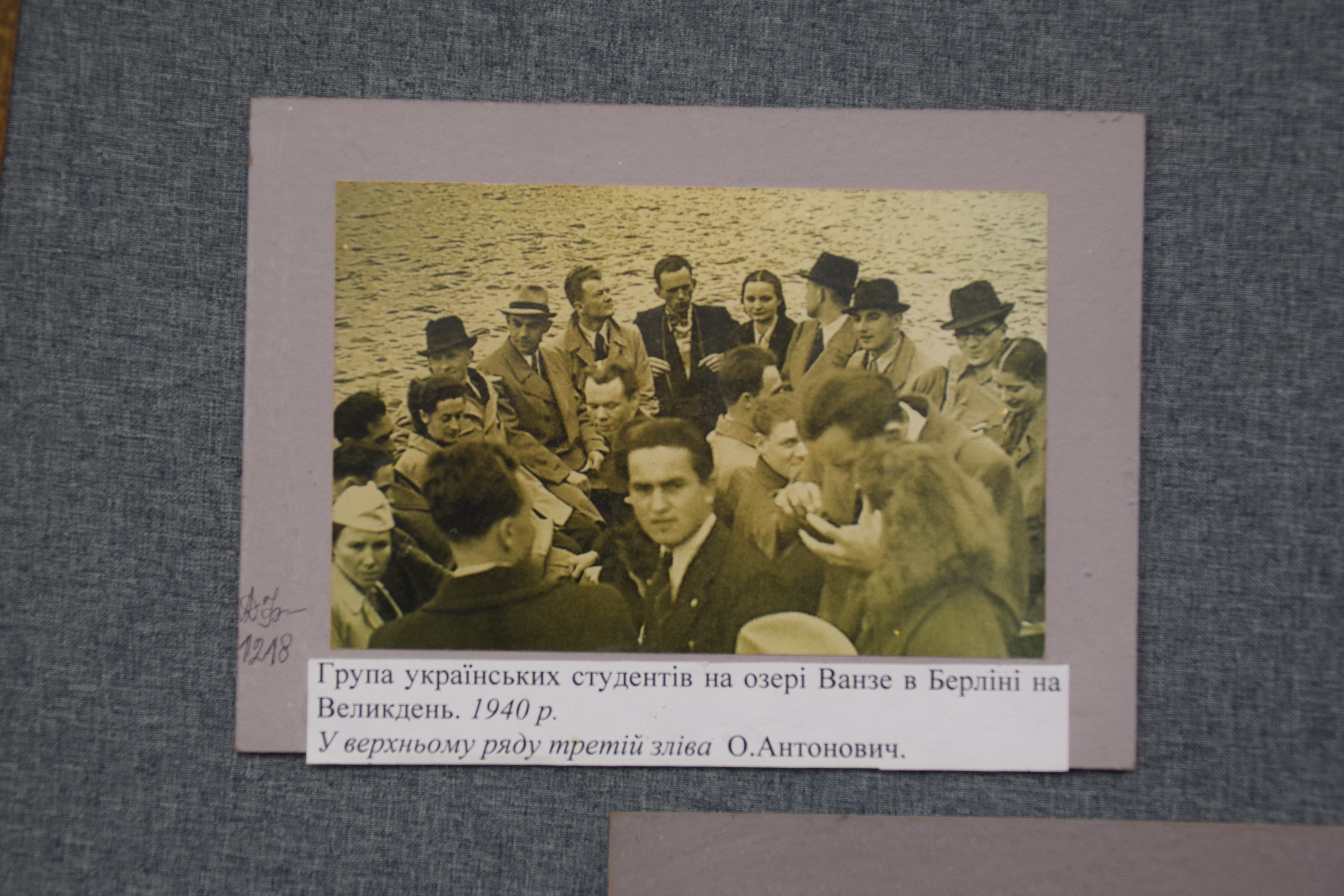 Permanent exhibition in Boyko Museum in Dolyna